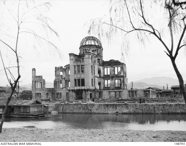 The Hiroshima-Ken Shorei Kan (Prefectural Industry Promotion Building) also known as the Industrial Hall and the Chamber of Commerce, severely damaged by the dropping of the atomic bomb on 1945-08-06. The building was designed by Jan Letsel of Czechoslovakia. It was completed in 1915-04 and opened 1915-08-05. The building remains today, preserved intact as a monument.